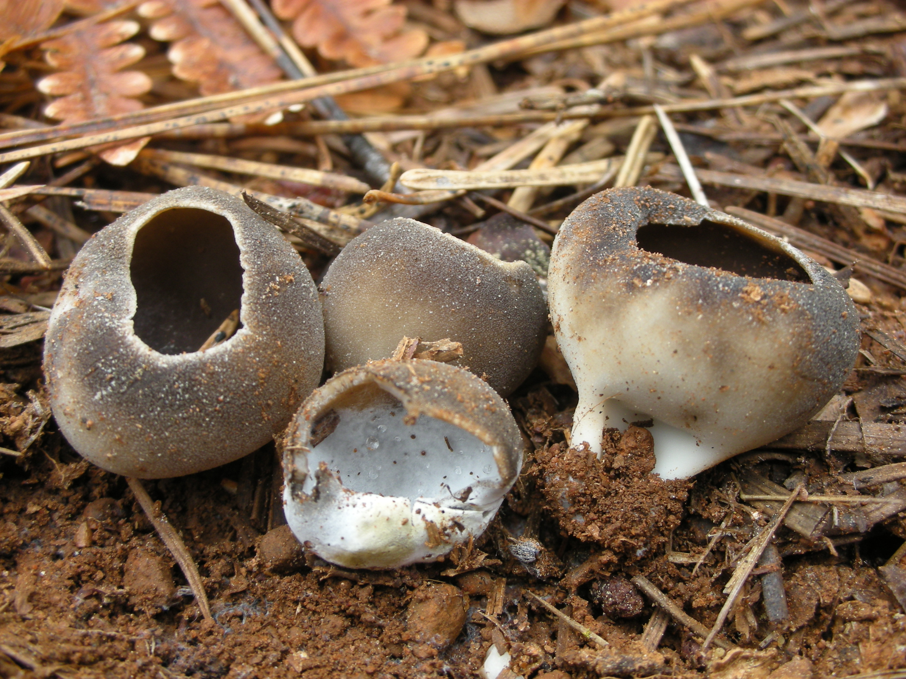 The mushroom Helvella leucomelaena (Pers.) Nannf. Photographed in Harden Flat, Tuolumne Co., California, USA. Notes: "dentified at the MSSF San Jose Camp by J. R. Blair and Brian Perry."